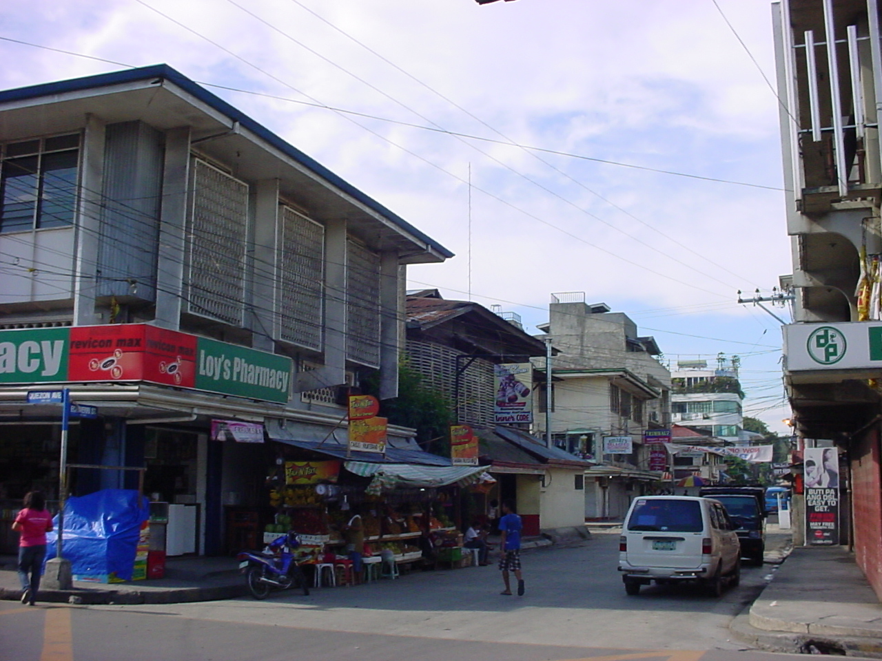 The Echiverri Street in Iligan City, Mindanao, Philippines